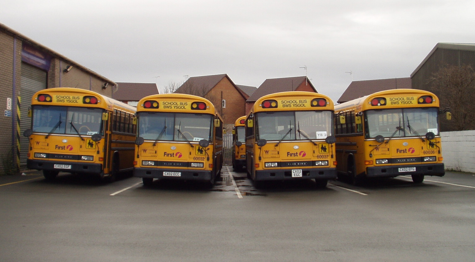 Four Blue Bird AARE school buses operated by First in Wrexham